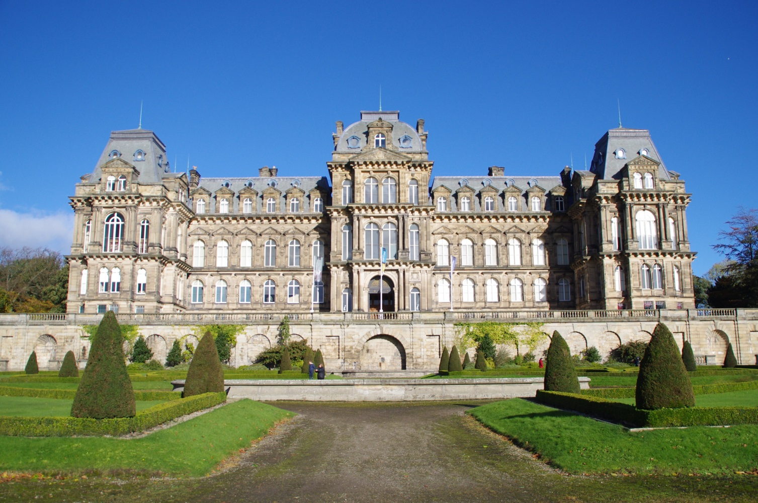 Bowes Museum at Barnard Castle